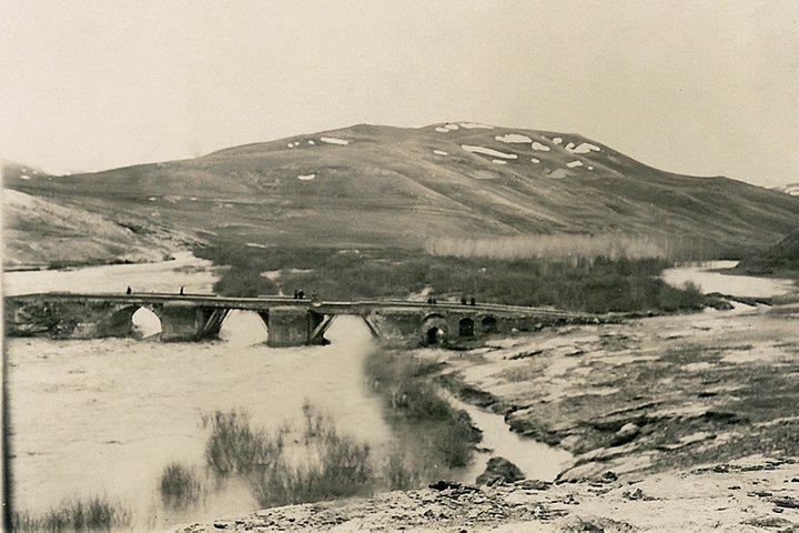 soor bridgeKurdî: پردی سووری مەهاباد